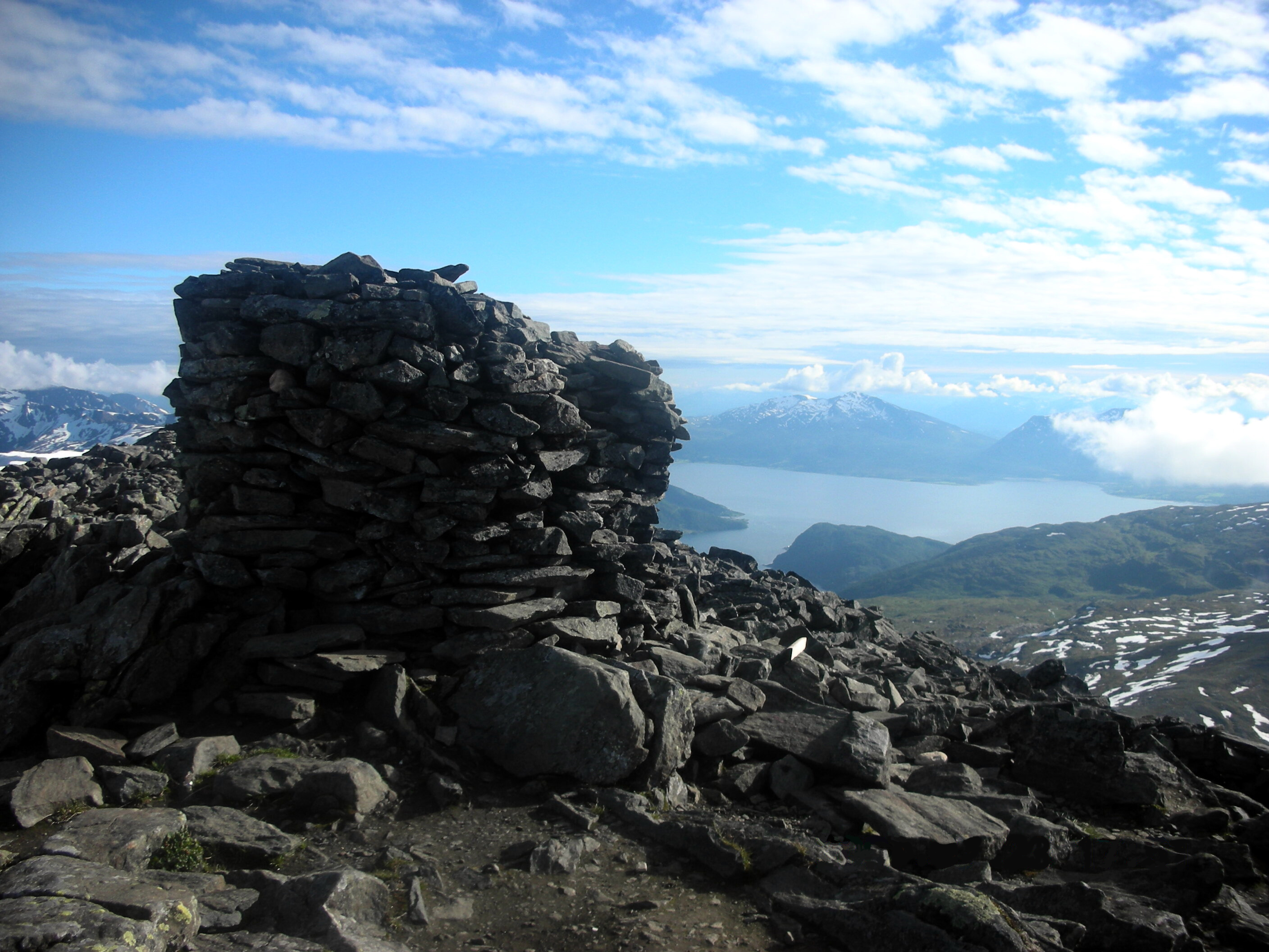 The beacon on the summit of Tromsdalstind, Tromsø, Norway. Looking to the south.